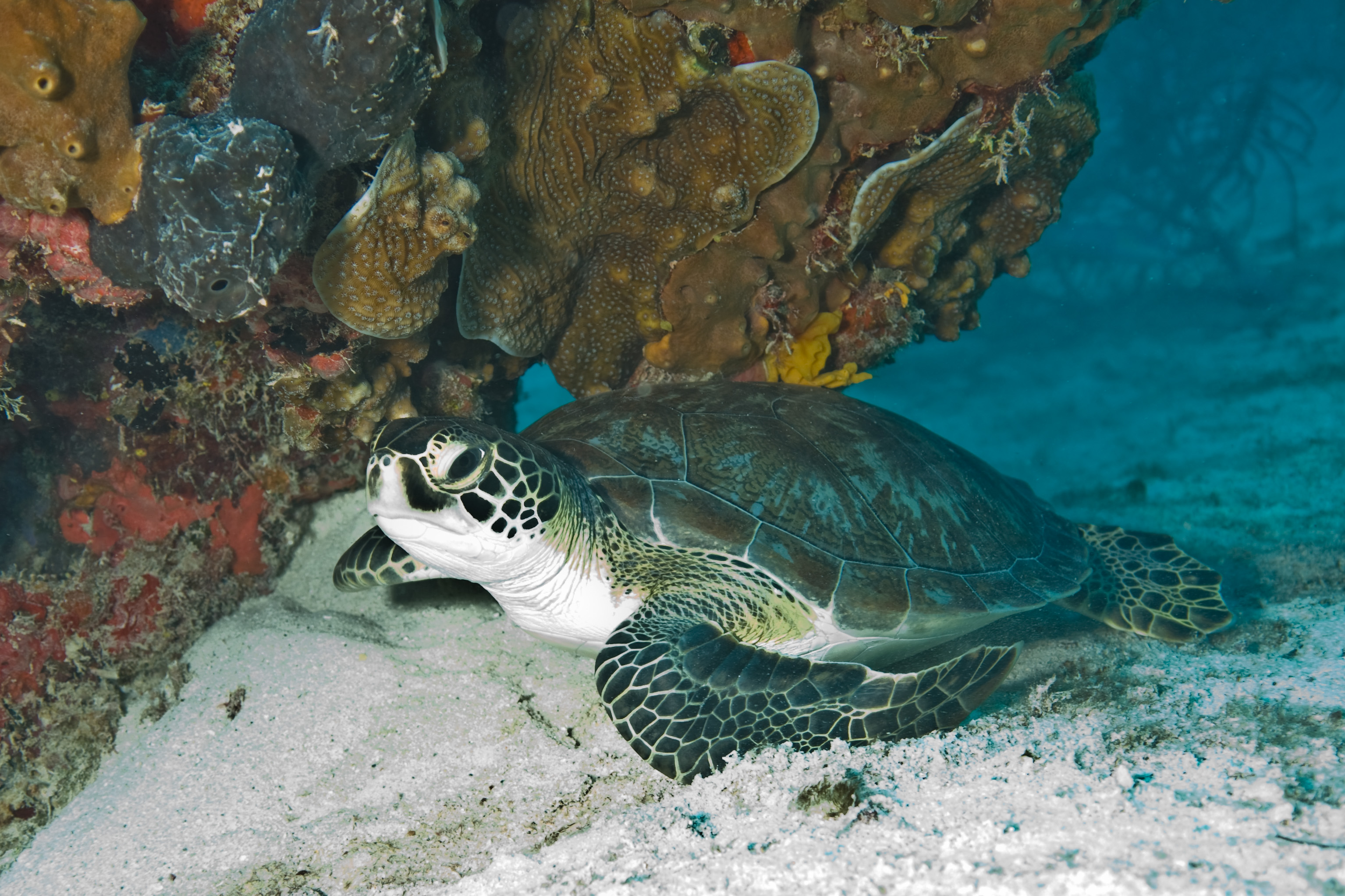 Green Sea Turtle in Biscayne National Park